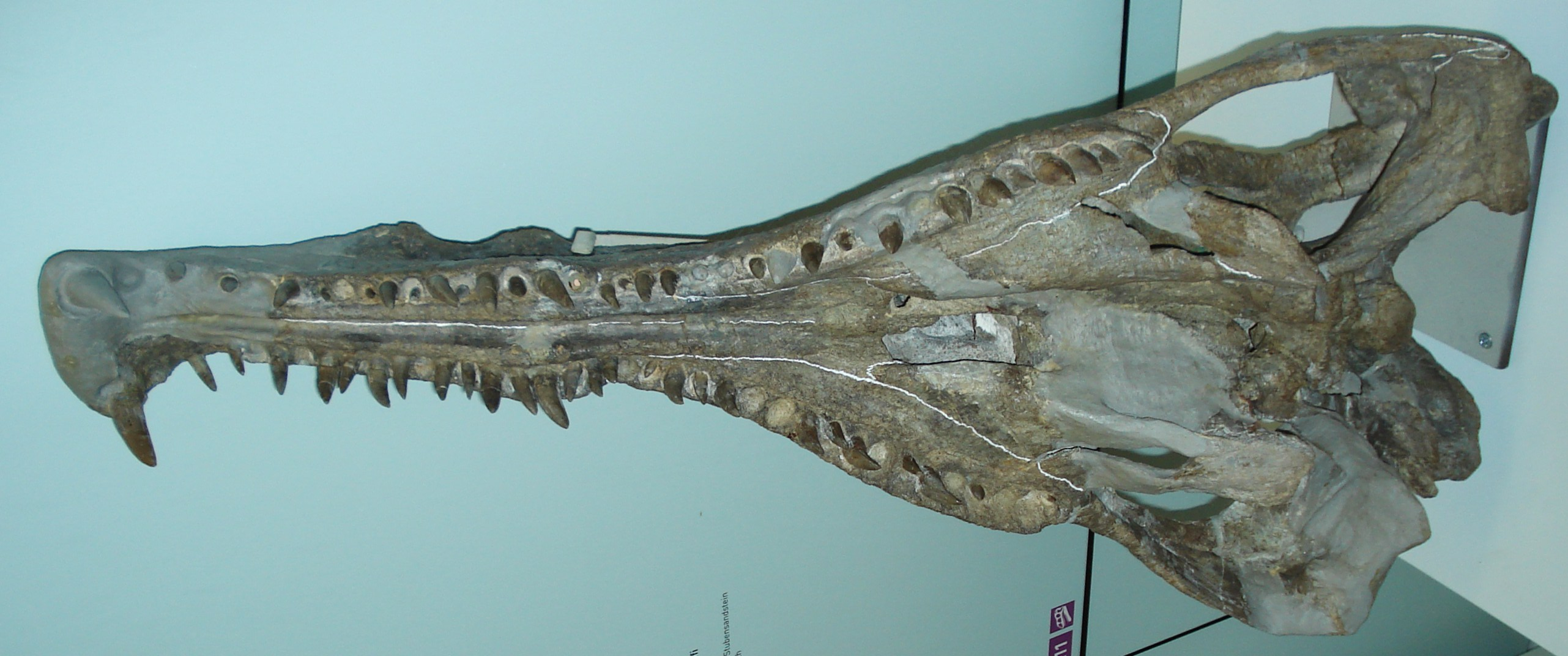 fossil of nicrosaurus